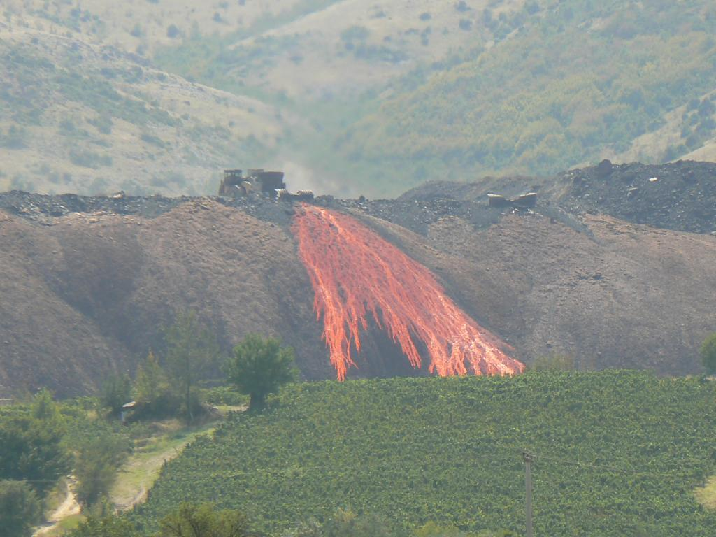 Feni industries near Kavadarci, Macedonia